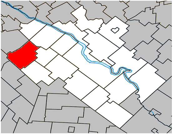 Location of Saint-Guillaume, Quebec within Drummond Regional County Municipality.